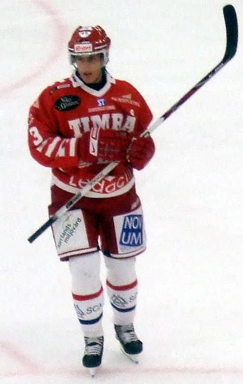 Ice hockey player Sebastian Erixon of Timrå IK in Gärdehov, Sundsvall, Sweden